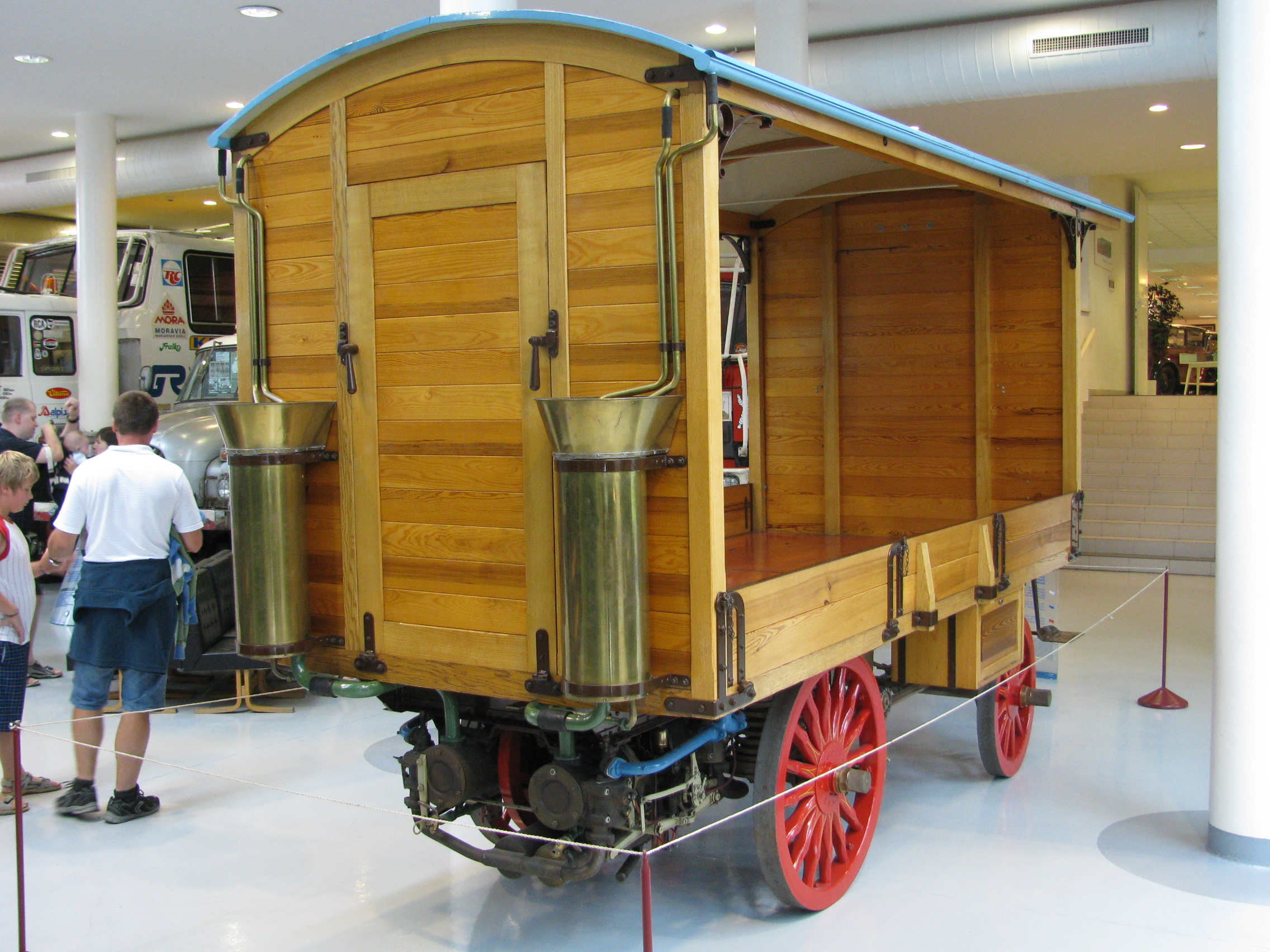 Replica of the first lorry made by Nesselsdorfer Wagenbau, in Tatra Technical museum.